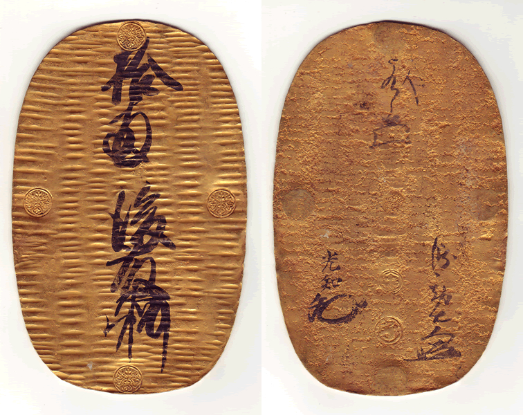 Old money of Japan, Tensho oban, 天正大判金